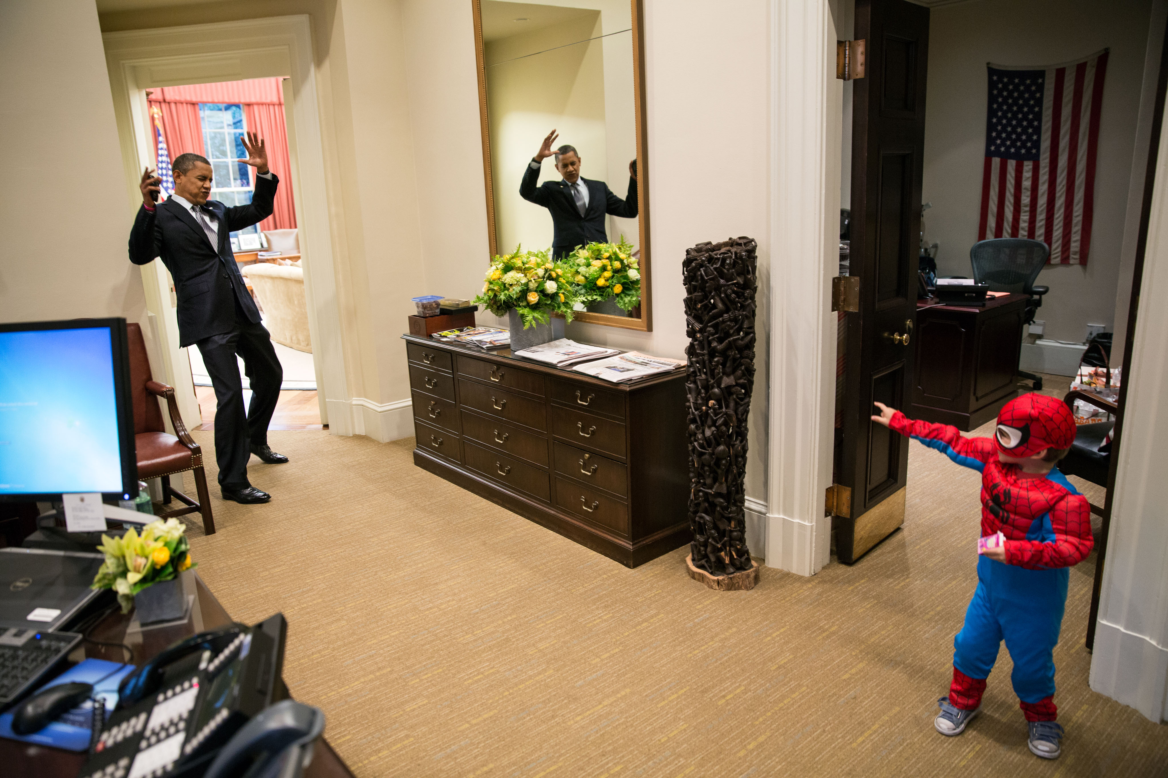 United States President Barack Obama pretends to be trapped in Spider-Man's web as he greets Nicholas Tamarin, aged three, in the doorway between the Oval Office and his secretary's office. Spider-Man had been trick-or-treating for an early Halloween with his father, White House aide Nate Tamarin, in the Eisenhower Executive Office Building. President Obama declared this photograph his favourite picture of 2012 when he saw it hanging in the West Wing a couple of weeks later.